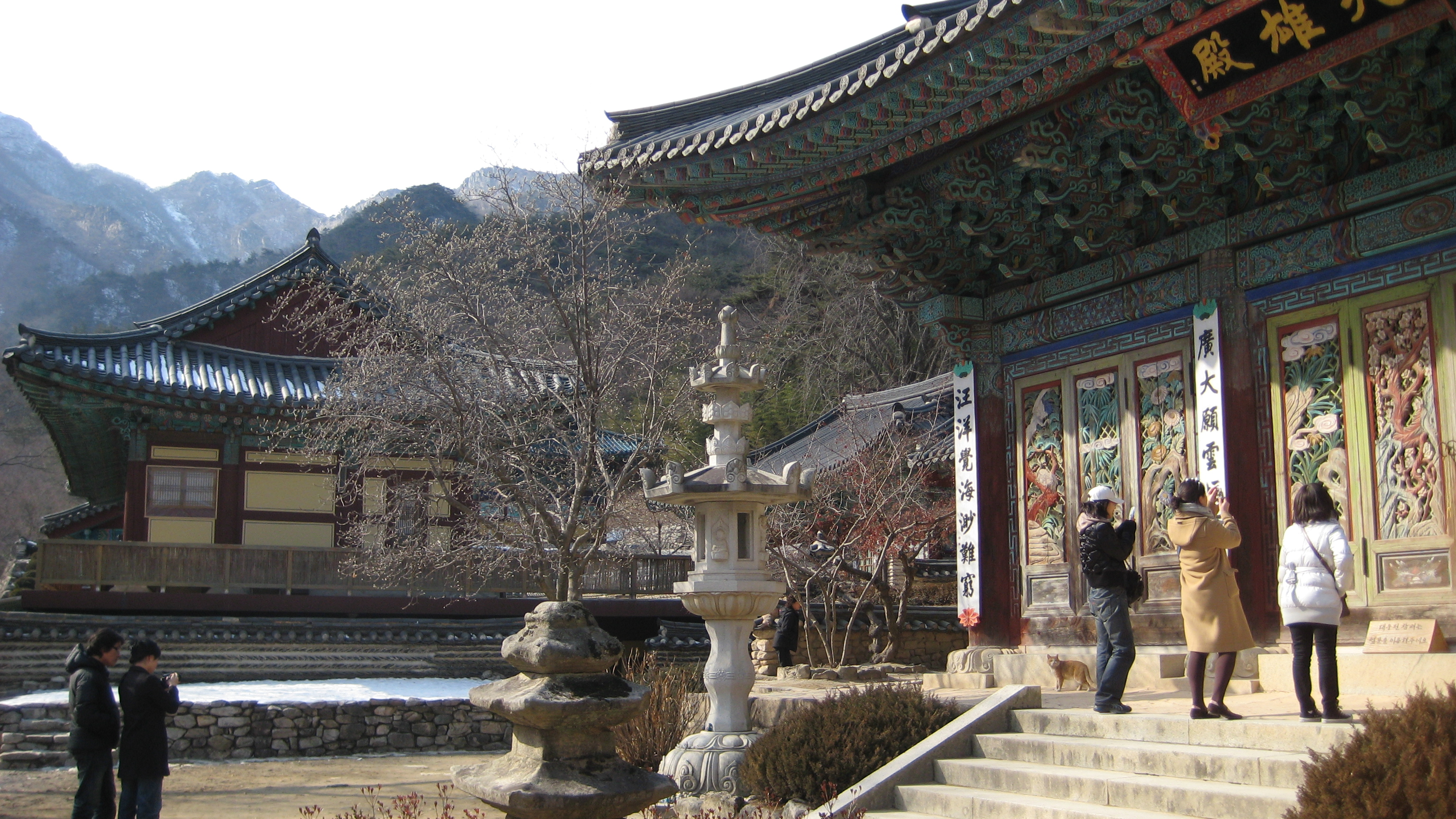 Donghaksa Temple, Daejeon, South Korea